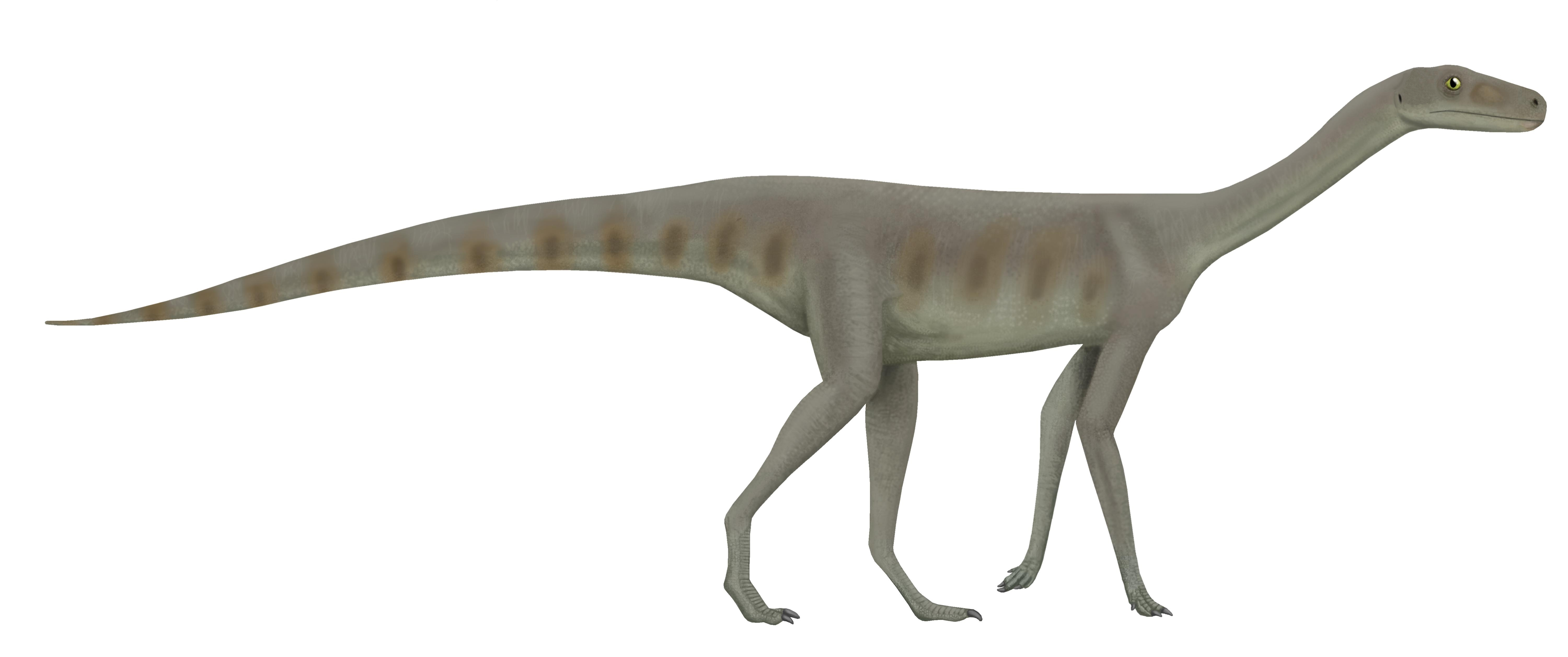 Life restoration of Asilisaurus kongwe. Based on fig. 2 of "Ecologically distinct dinosaurian sister group shows early diversification of Ornithodira" by Sterling J. Nesbitt, Christian A. Sidor, Randall B. Irmis, Kenneth D. Angielczyk, Roger M. H. Smith and Linda A. Tsuji. Nature 464: 95–98.[1]